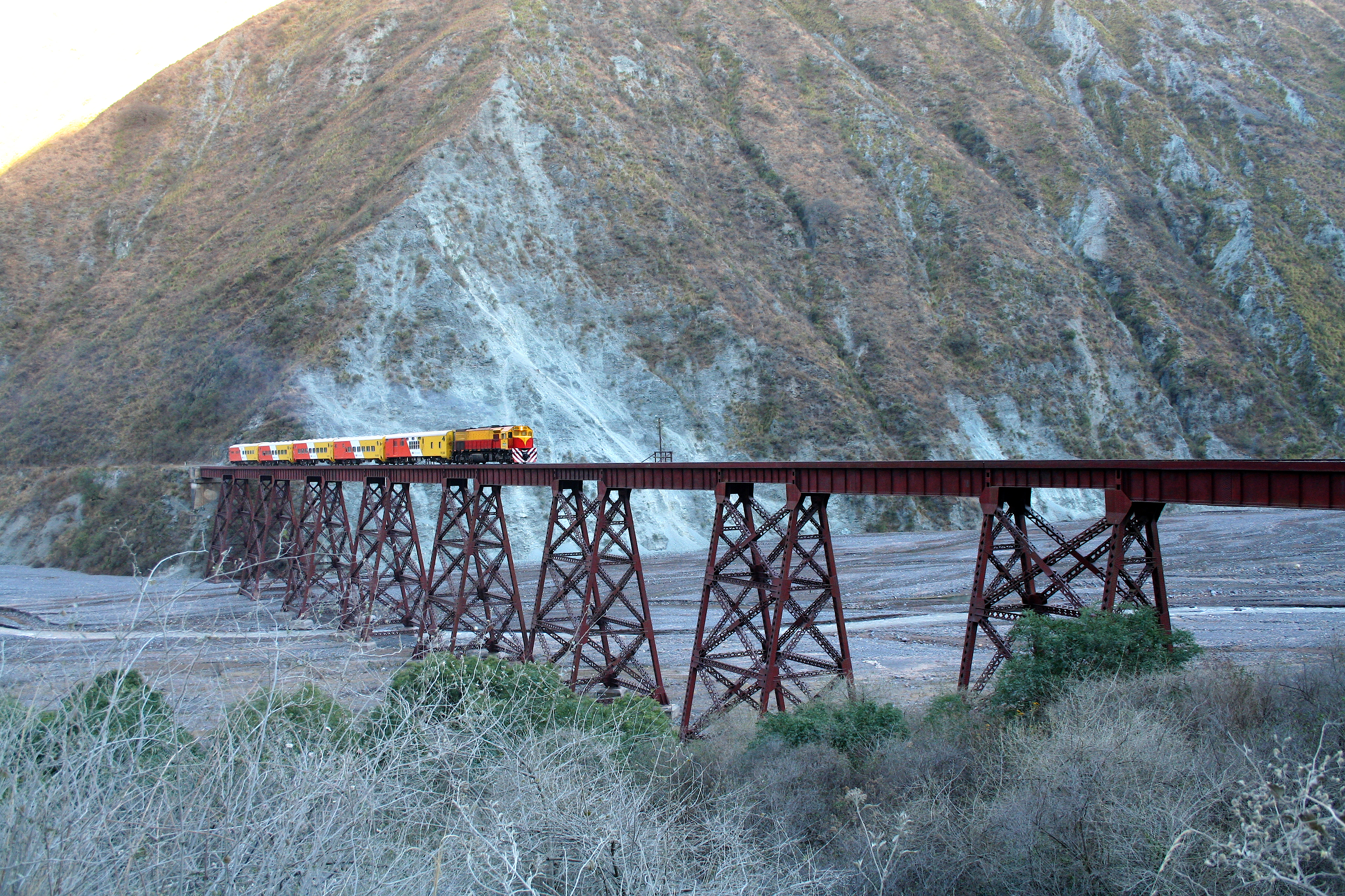 Train to the Clouds ascends a max altitude of 4.220 metres